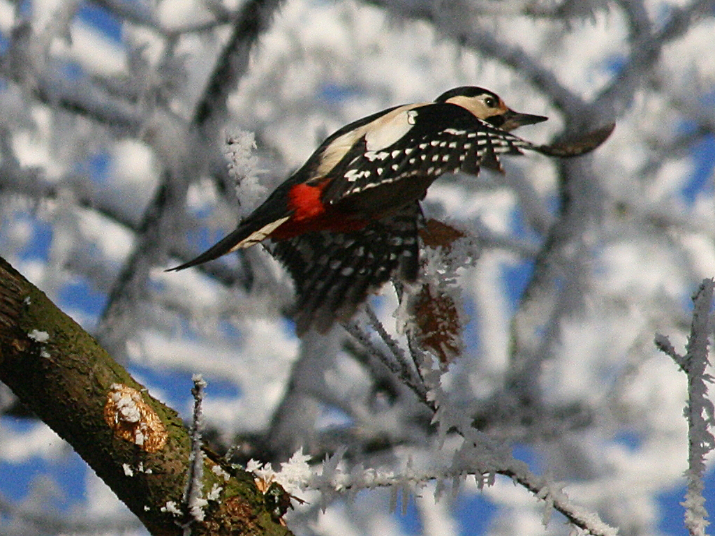 Flying Dendrocopos major, ♀